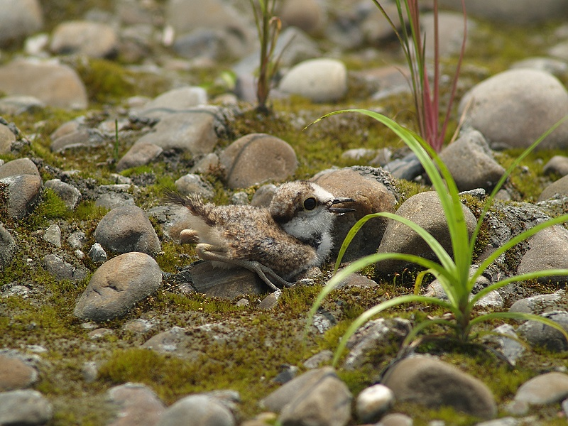 Charadrius dubius, baby bird, Yunlin County, Taiwan. 2008.